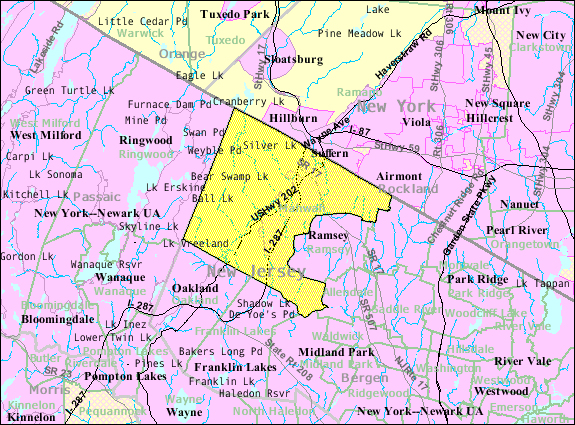 U.S. Census Bureau map of Mahwah